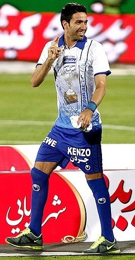 Javad Nekounam celebrating IPL title with Esteghlal